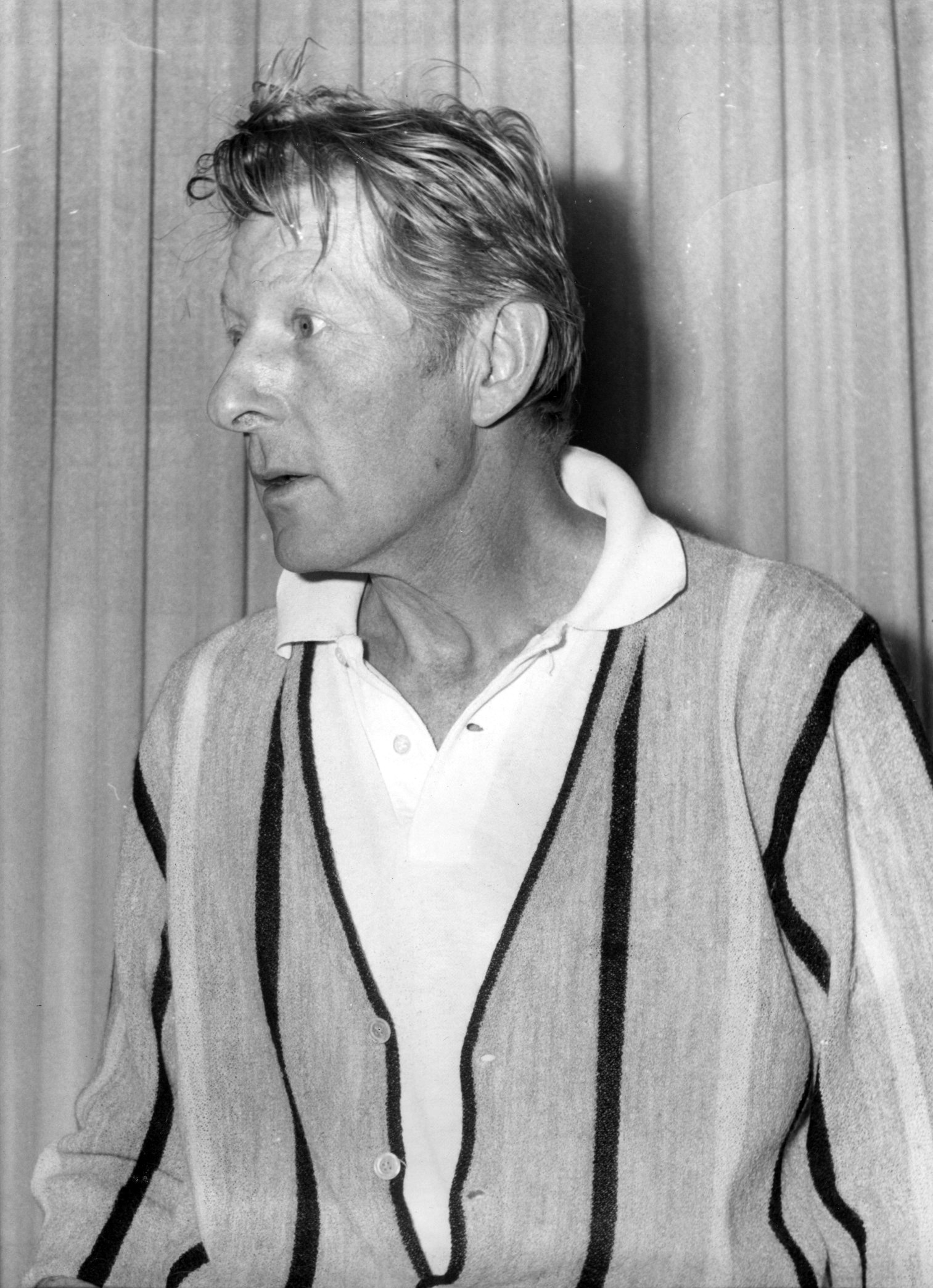 Danny Kay in Israel.